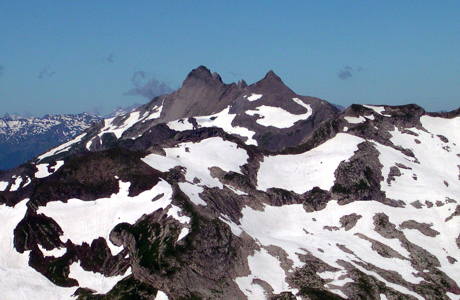 left to right: Vorder Grauspitz (Rätikon, CH/FL, 2599 m), the highest mountain in Liechtenstein and Hinter Grauspitz (also: Schwarzhorn) (2574m) from east.